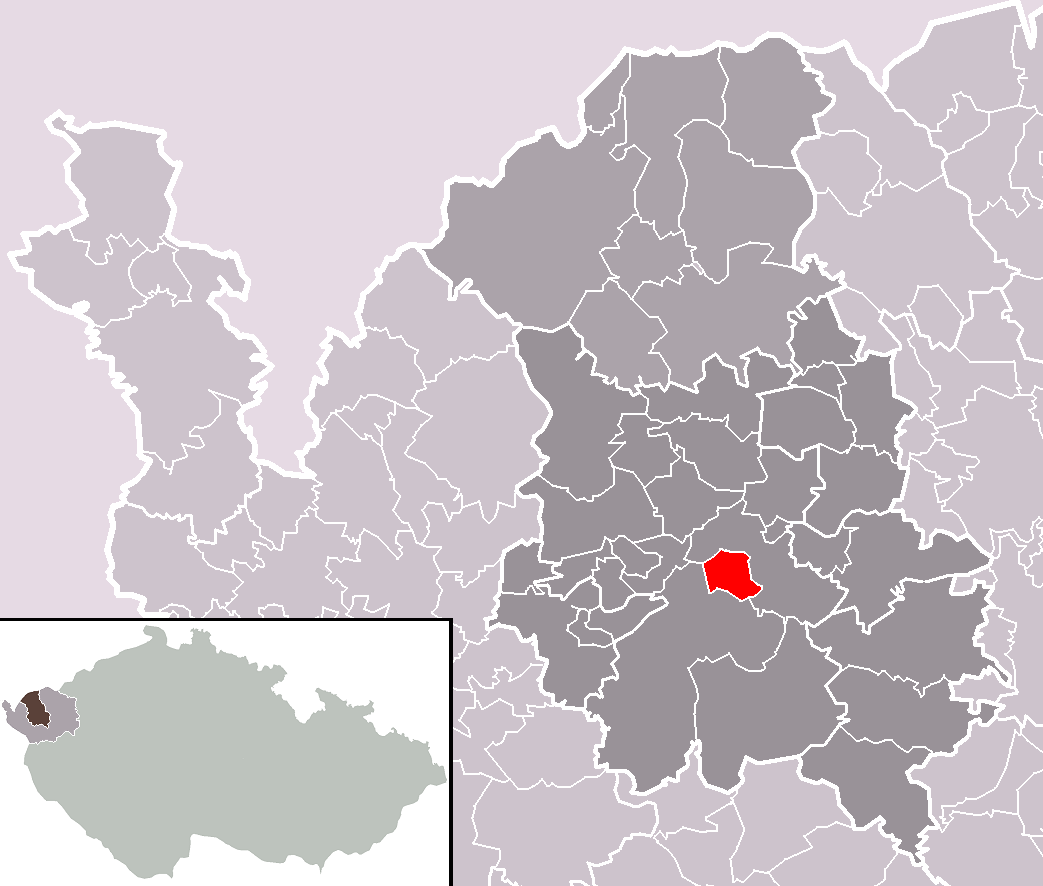 Location of Dolní Rychnov municipality within Sokolov District and administrative area of Sokolov as a Municipality with Extended Competence.